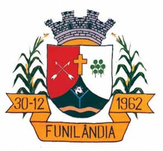 Coat of arms of the city of Funilândia, Minas Gerais, Brazil.